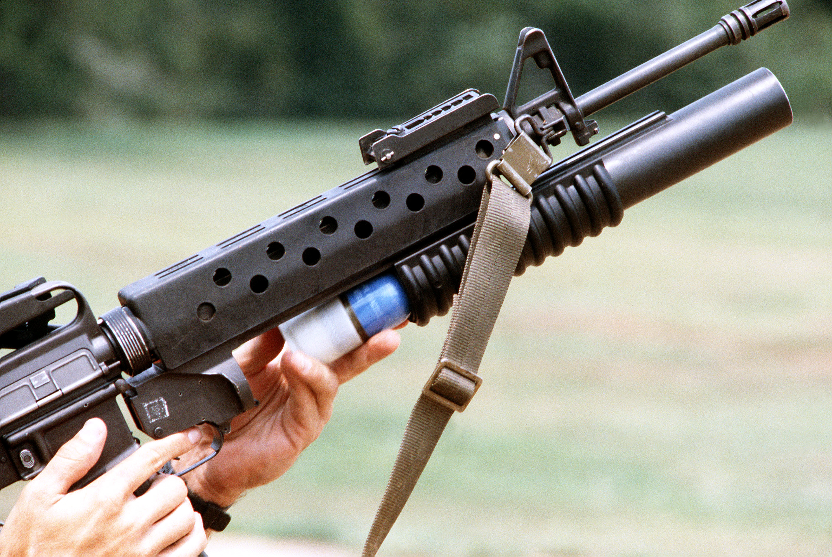 A 40 mm practice round is loaded into an M203 grenade launcher mounted on an M16A1 rifle during the DEFENDER CHALLENGE '88.